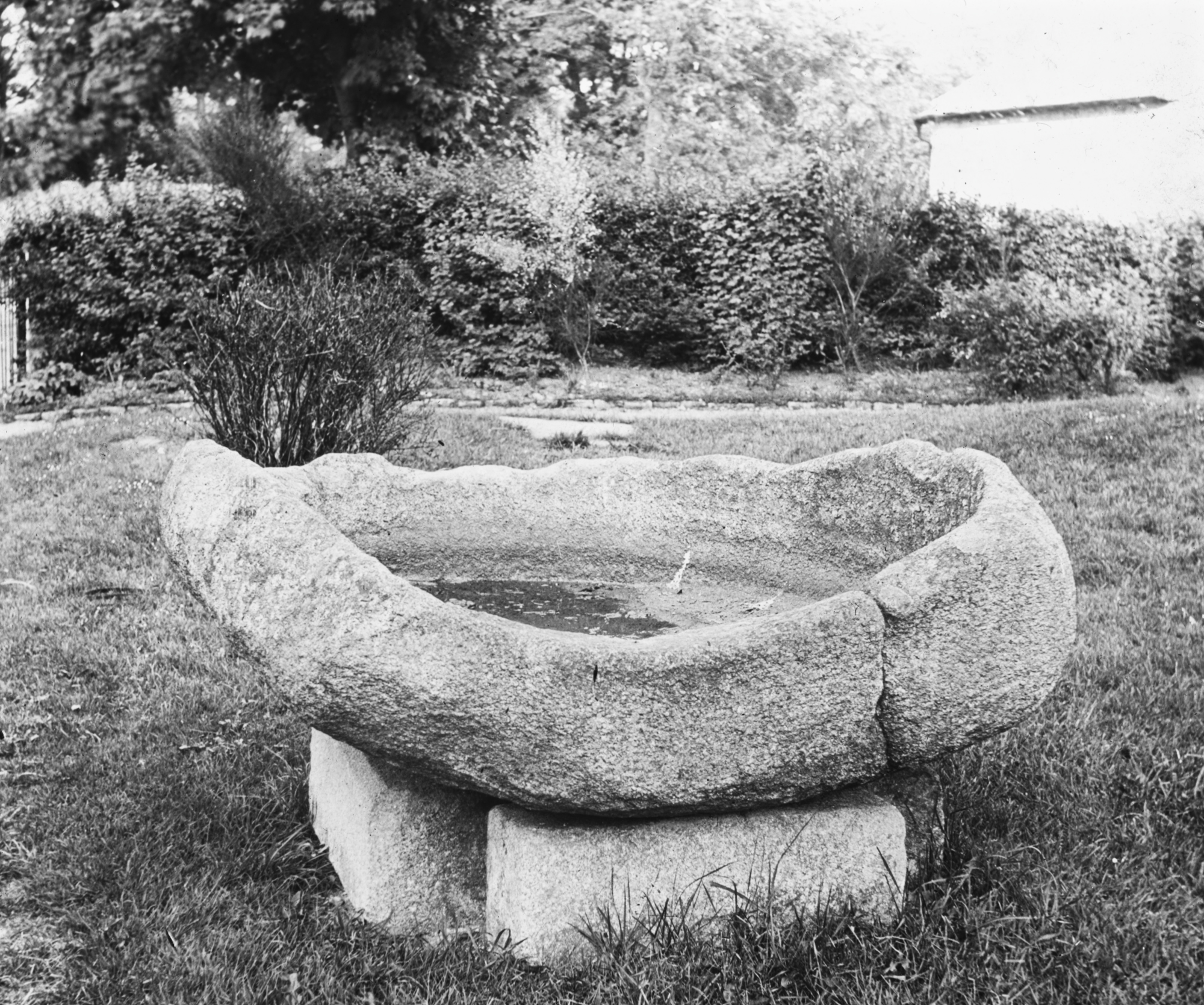 This enormous stone bowl or font stands/stood in Tallaght in South County Dublin. The creation of such a font must have been a great undertaking at the time and have taken a long time to complete. What was it used for and is it still in situ? While I have the vaguest of notions that we have come across archaic words for a font previously ("pant"?), I do not think we've encountered the word "losset" before. But, apparently, this is what we have here. Losset is an old-Irish word for a trough, and this example is St. Maelruan's Losset in Tallaght. Apparently used for ceremonial feet bathing (rather than as a baptismal font), it seems quite ancient. Though, was apparently moved in the very late 19th century - perhaps dating this image to after c.1899.... Photographer: Thomas H. Mason Collection: Mason Photographic Collection Date: Catalogue range c.1890-1910. Perhaps after c.1899 (re-sited?) NLI Ref: M14/31 You can also view this image, and many thousands of others, on the NLI’s catalogue at